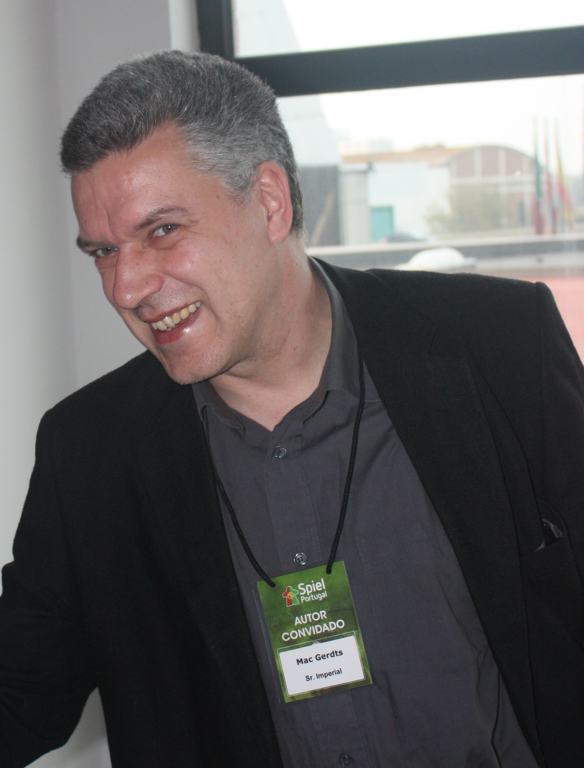 Boardgame designer Mac Gerdts at Play 2012, Modena, Italy. Cropped from the original.